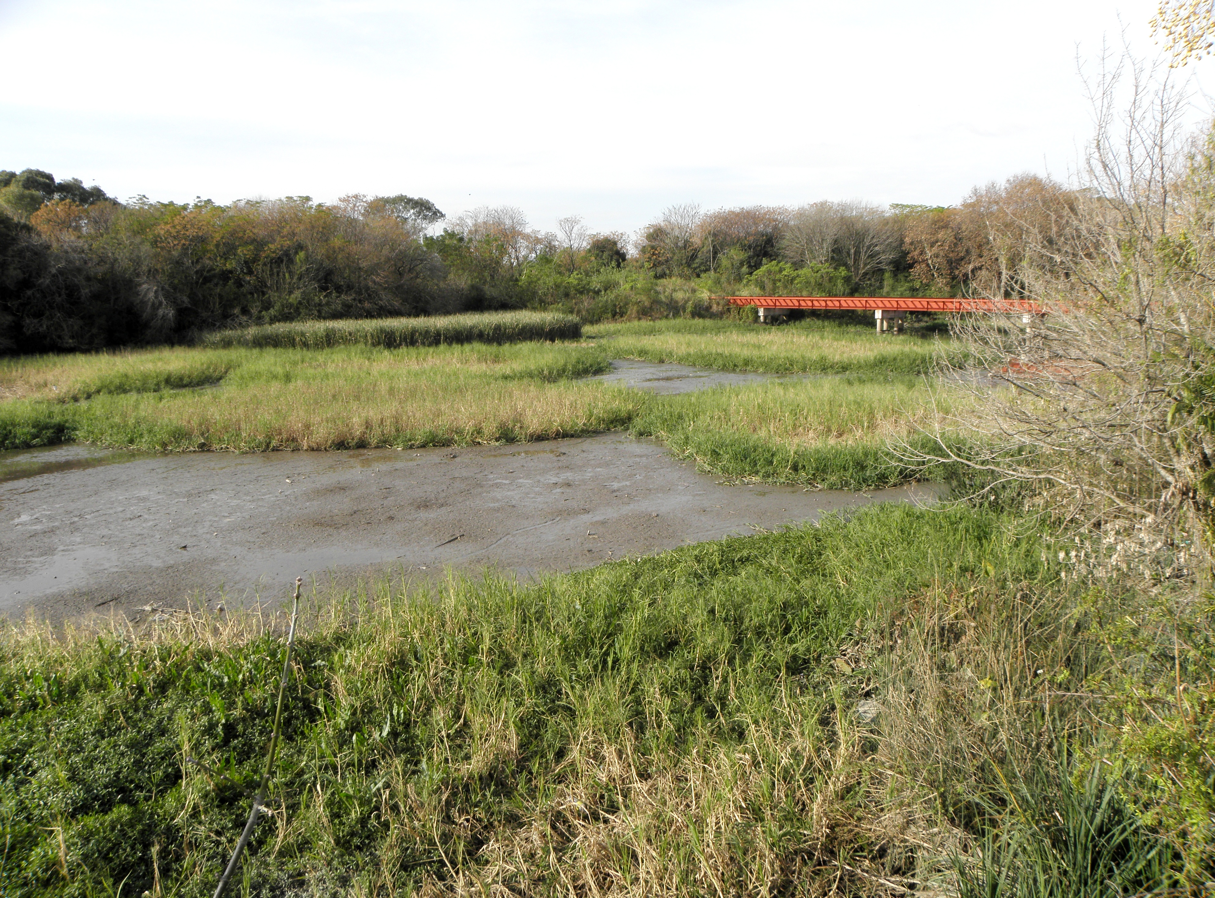 Ciudad Universitaria Ecological Reserve, on the coast of La Plata River, in the Buenos Aires city.